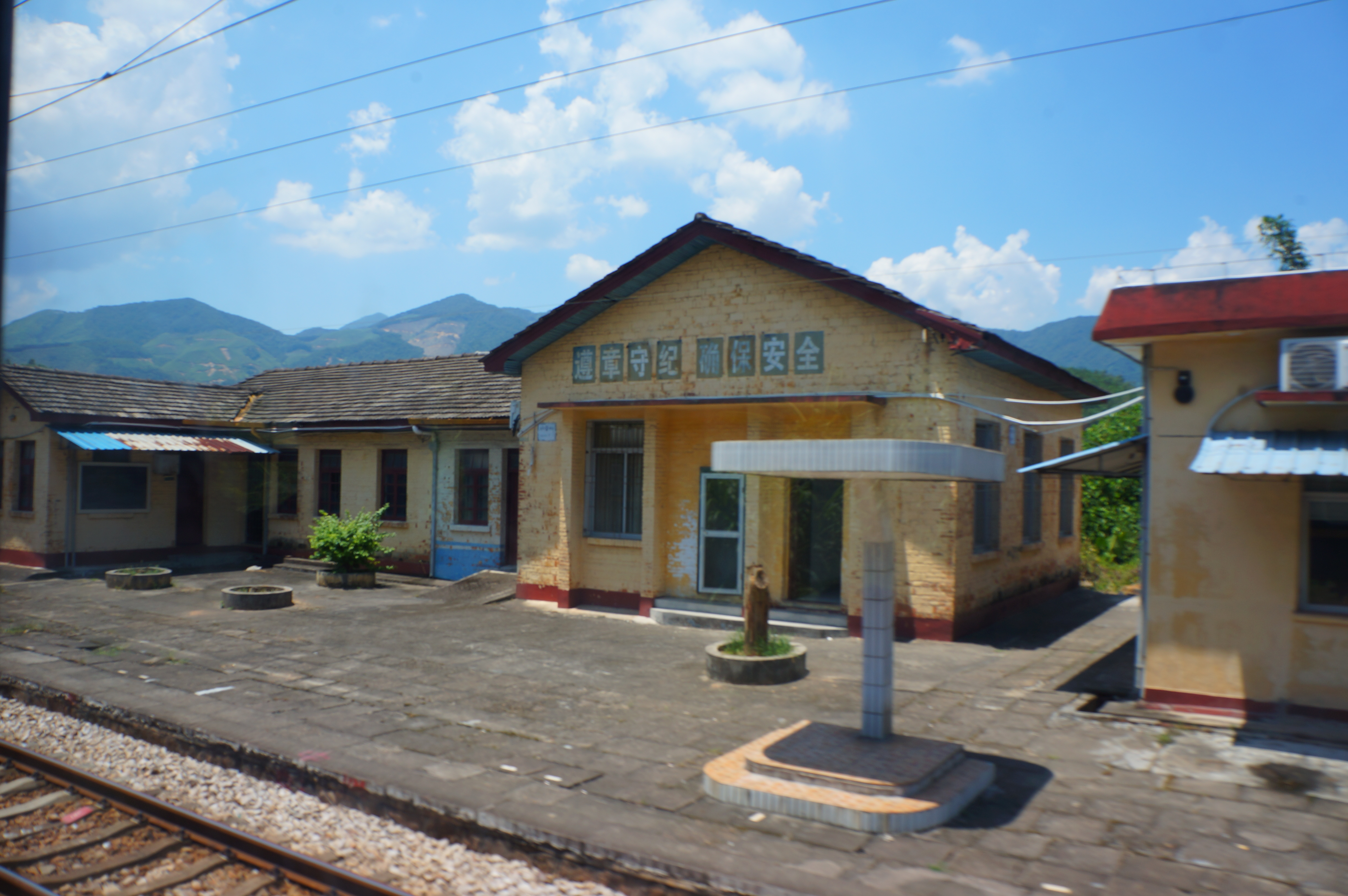 Khe Lam Pan Station. Next Station, Kim Soa Kio